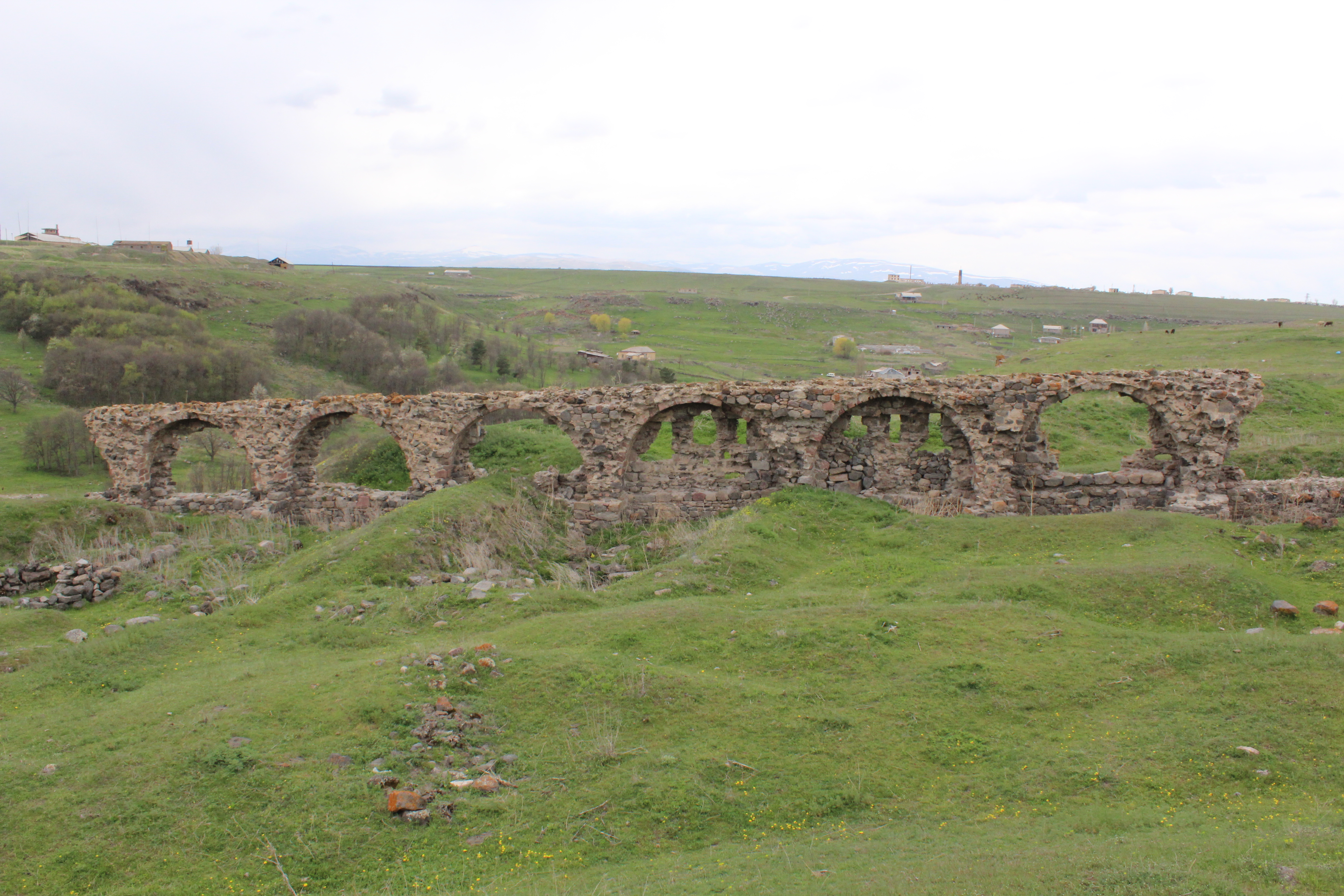 The medieval fortress survived in the town of Akhalkalaki.